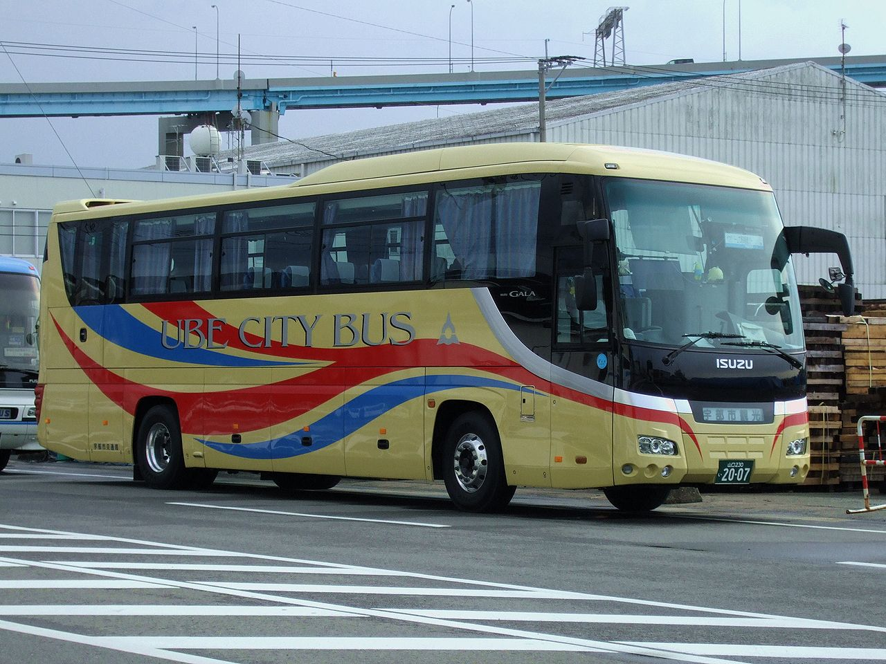 Company:Ube City Transportation Bureau Use:tour bus Car license:YU230 I 2007 Chassis manufacturer:Isuzu Motors Type:Isuzu Gala Coachbuilder:J-BUS Location:in Chuo Ward, Fukuoka City, Fukuoka, Japan.